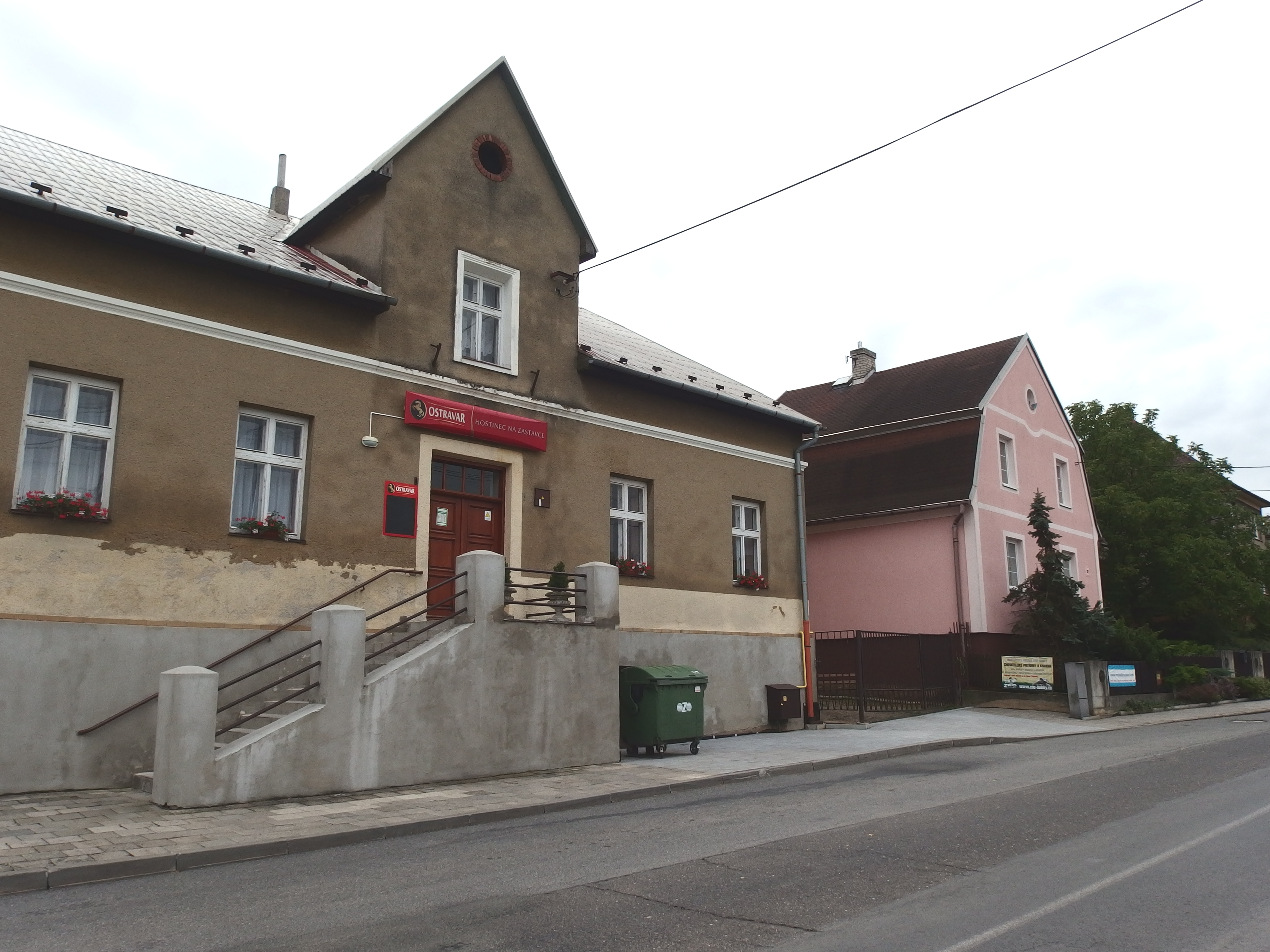 Darkovice, Opava District, Czech Republic.